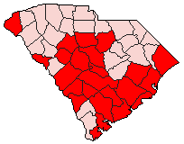 A map of the counties won by each candidate in the South Carolina Republican primary.